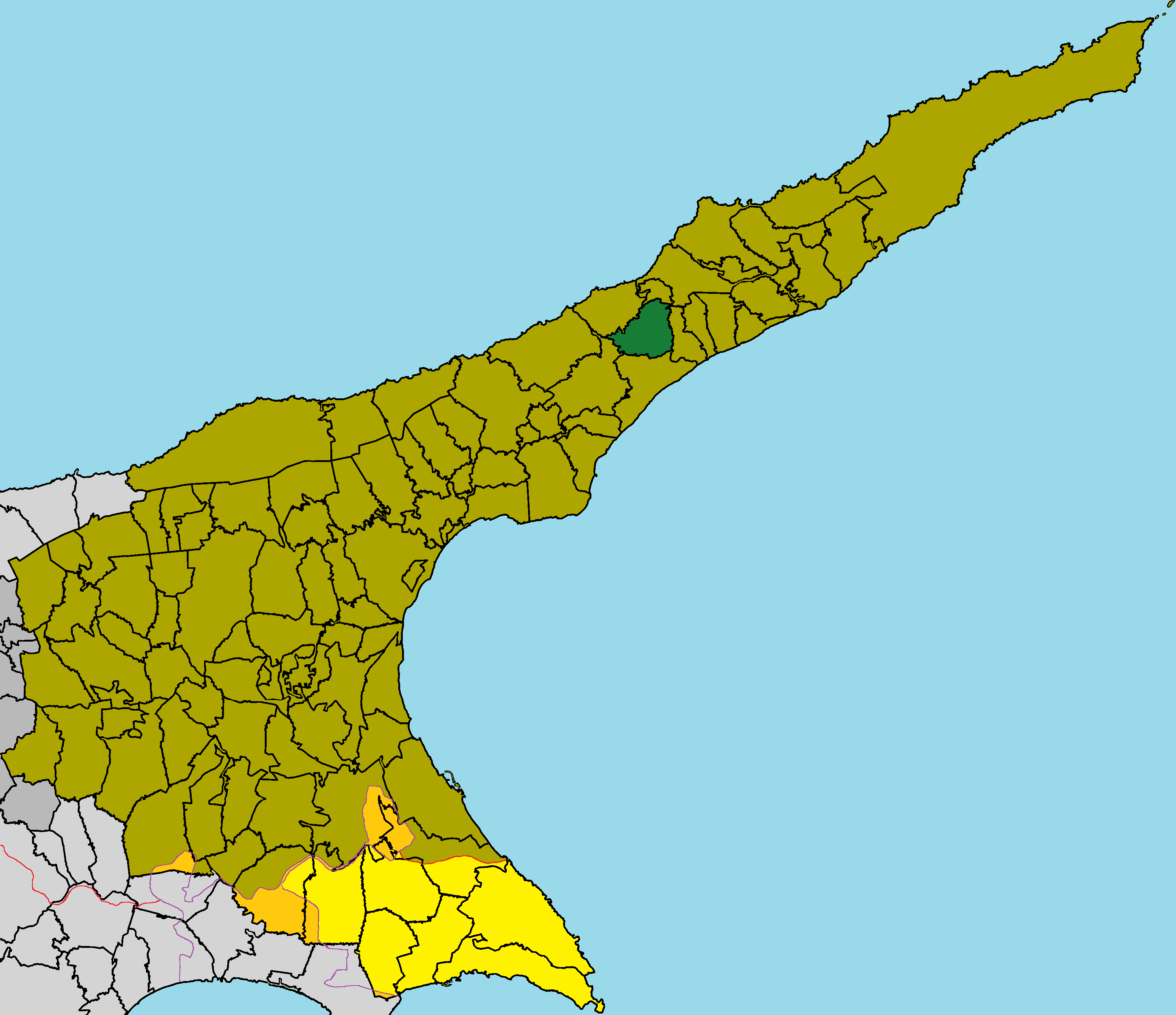 Leonarisso in Famagusta District (de jure).